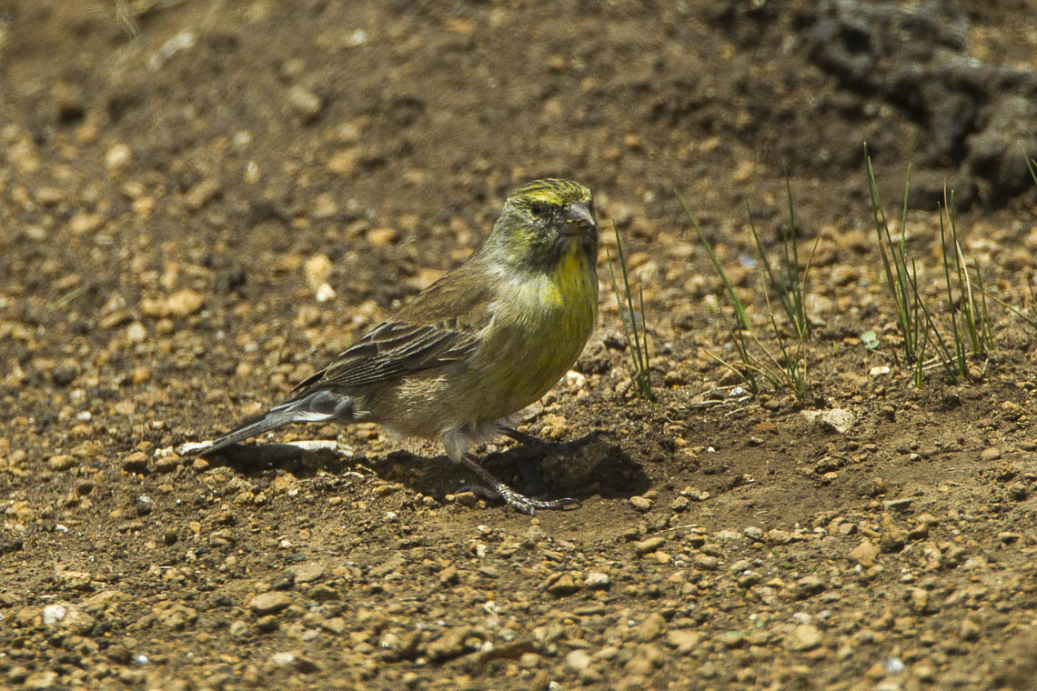 Drakensberg Siskin - Natal - South Africa_S4E7078